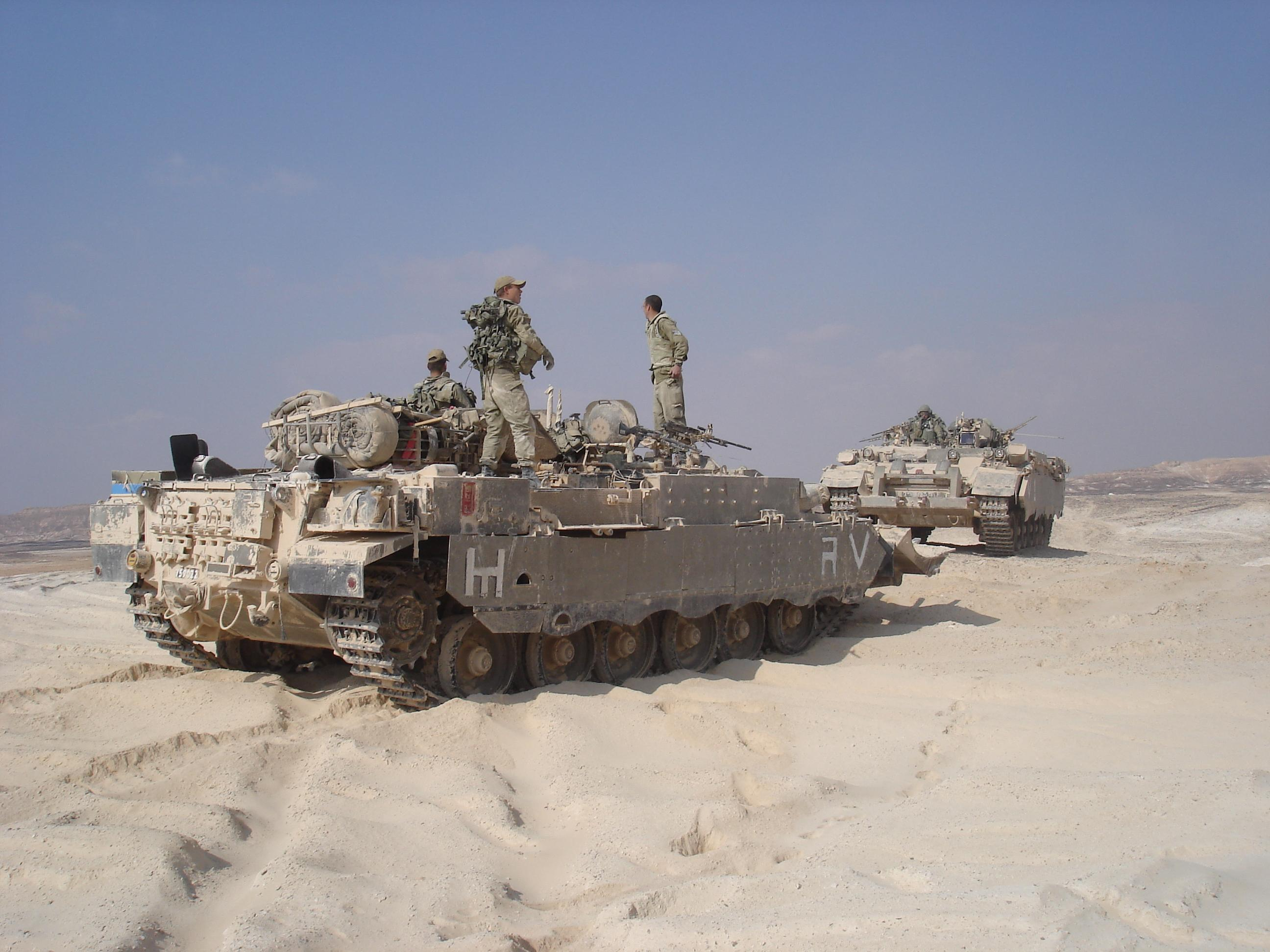 Puma APC during a day training of the 601 battalion of the Israel Engineering Corps